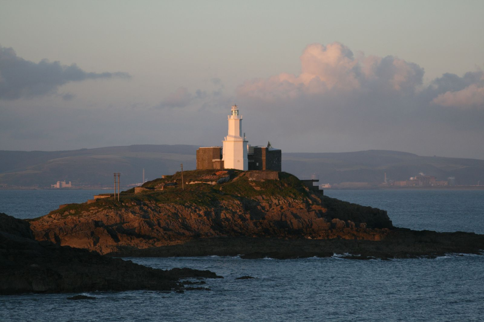 Mumbles Lighthouse, Wales